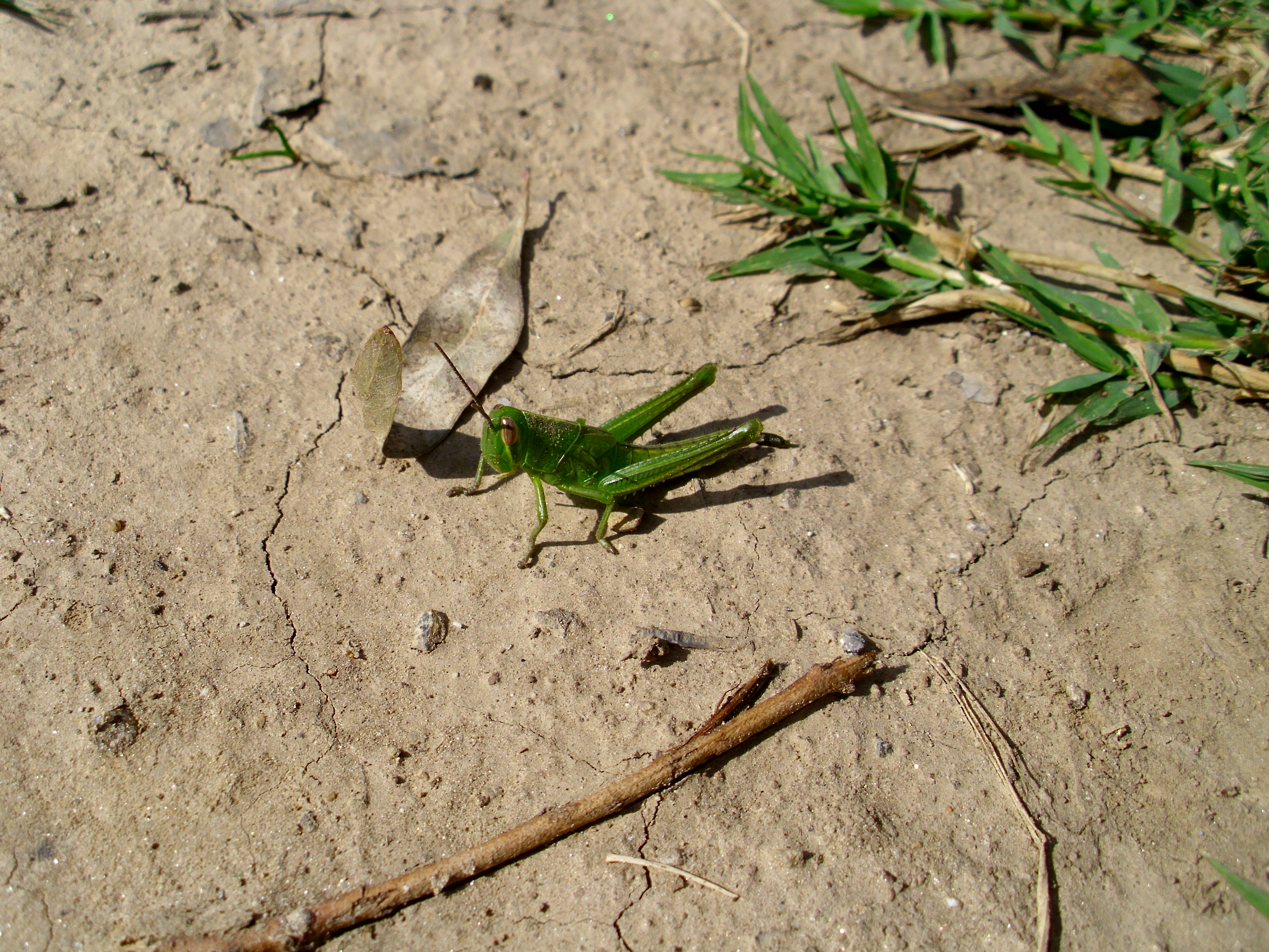 Spur-throated locust nymph photographed on the banks of the Murrumbidgee River in Wagga Wagga, New South Wales, Australia